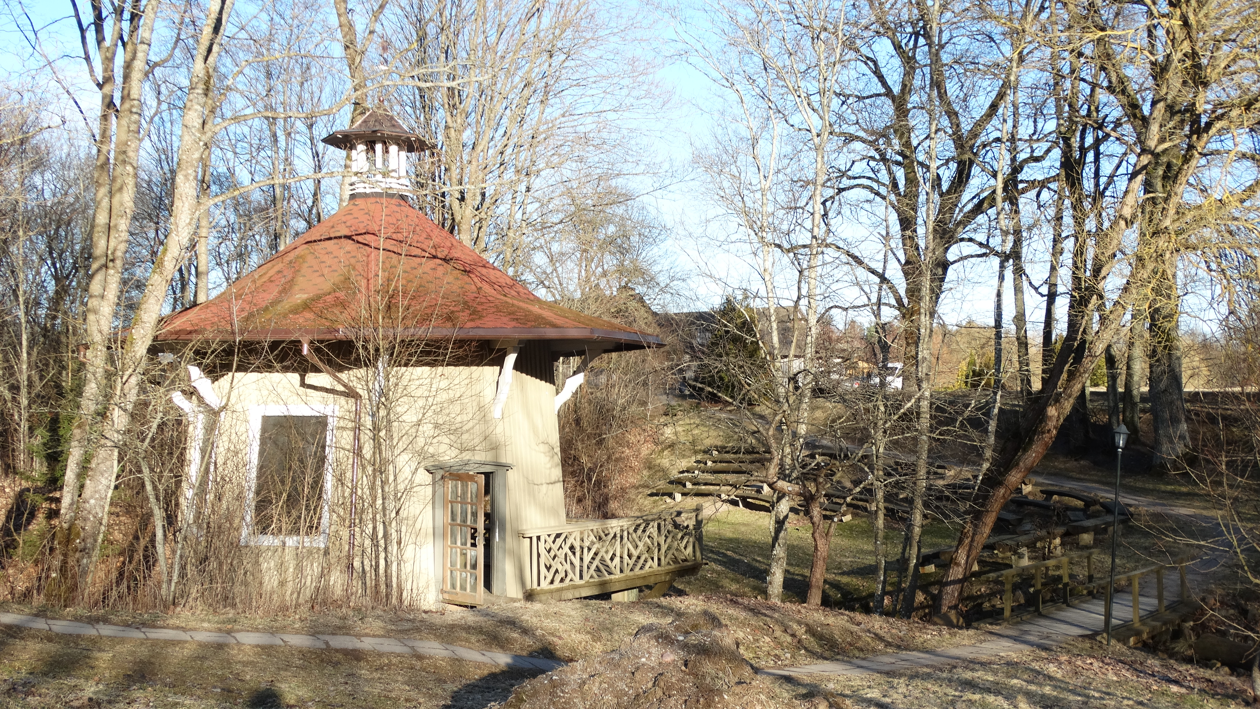 Pakutuvėnai, Plungė District, Lithuania